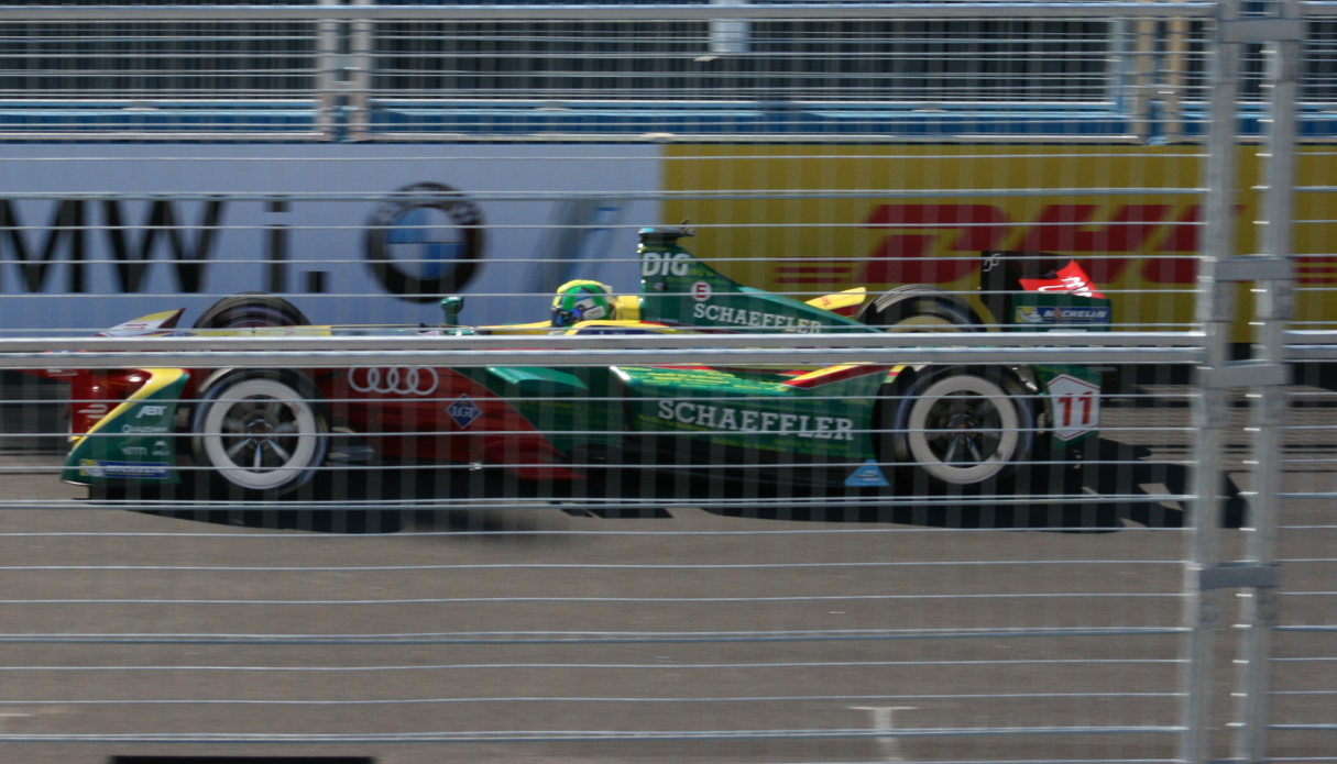 Lucas di Grassi competes in the 2017 New York City ePrix